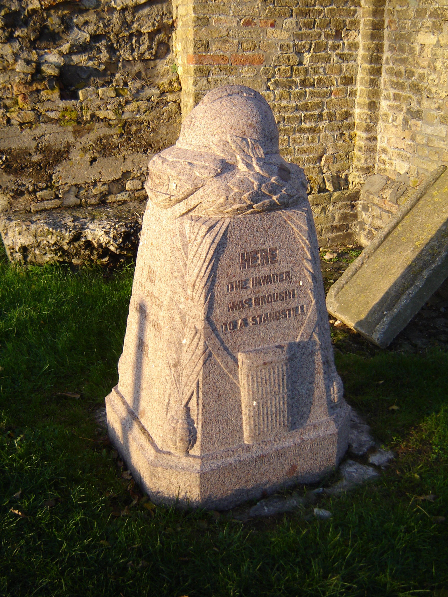 "Demarcatiepaal nr. 11" (demarcation post nr 11) in Oud-Stuivekens in Stuivekenskerke. Stuivekenskerke, Diksmuide, West Flanders, Belgium